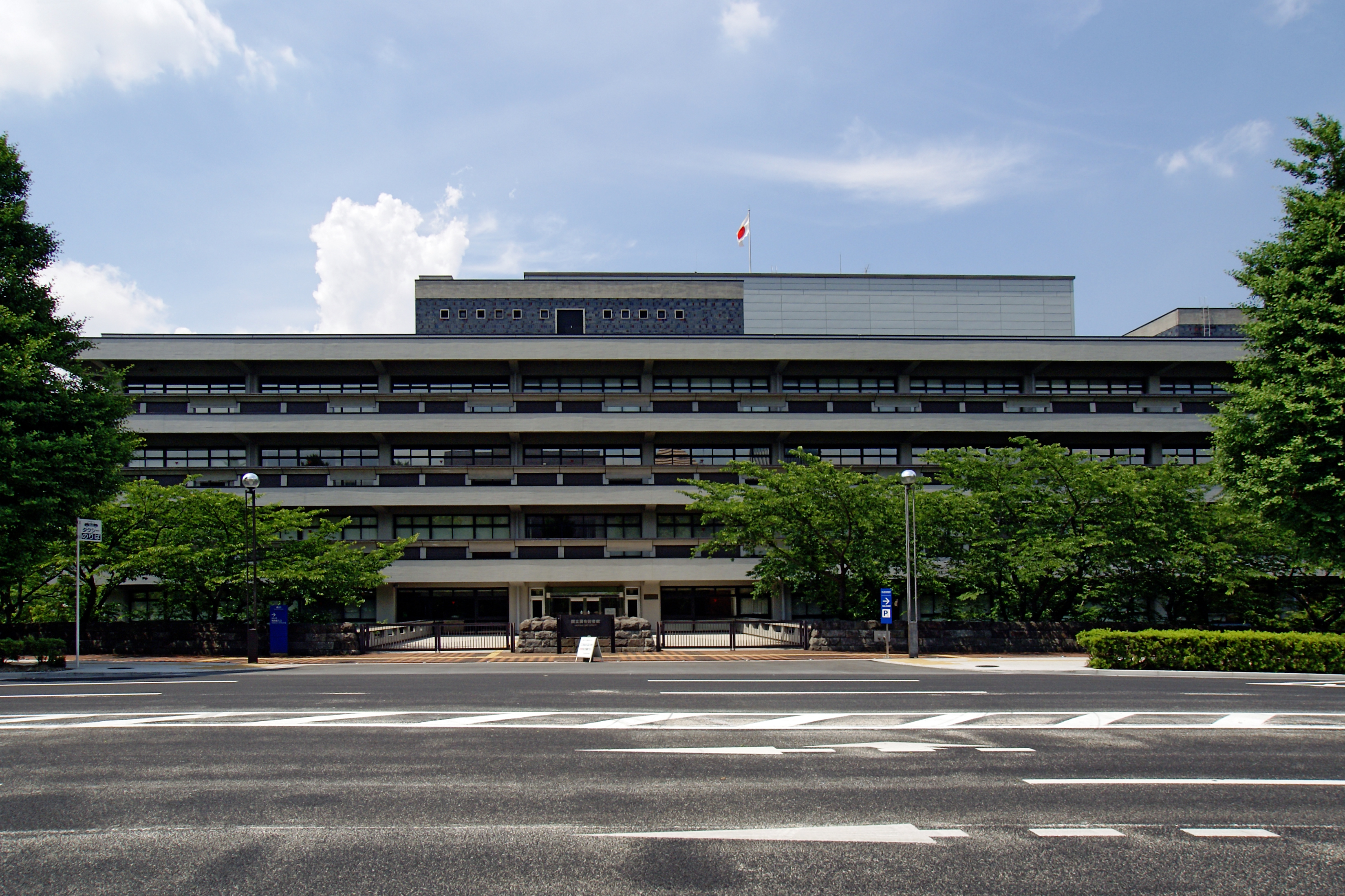 National Diet Library in Chiyoda-ku, Tokyo, Japan